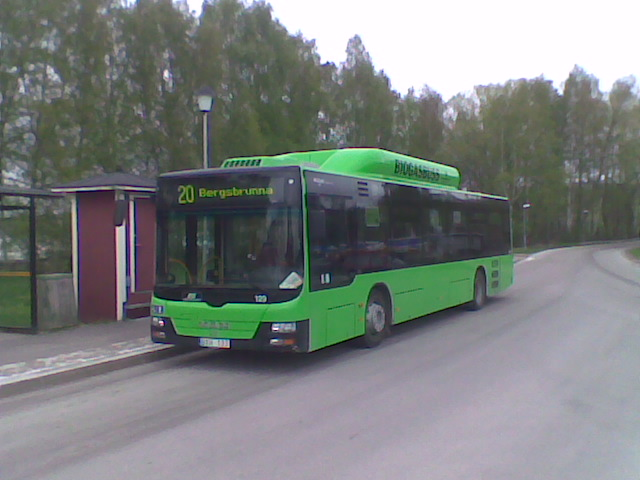 A MAN NL313 Lion's City CNG bus (#129) in Uppsala, Sweden. Built 2010, GUB Uppsala operator.